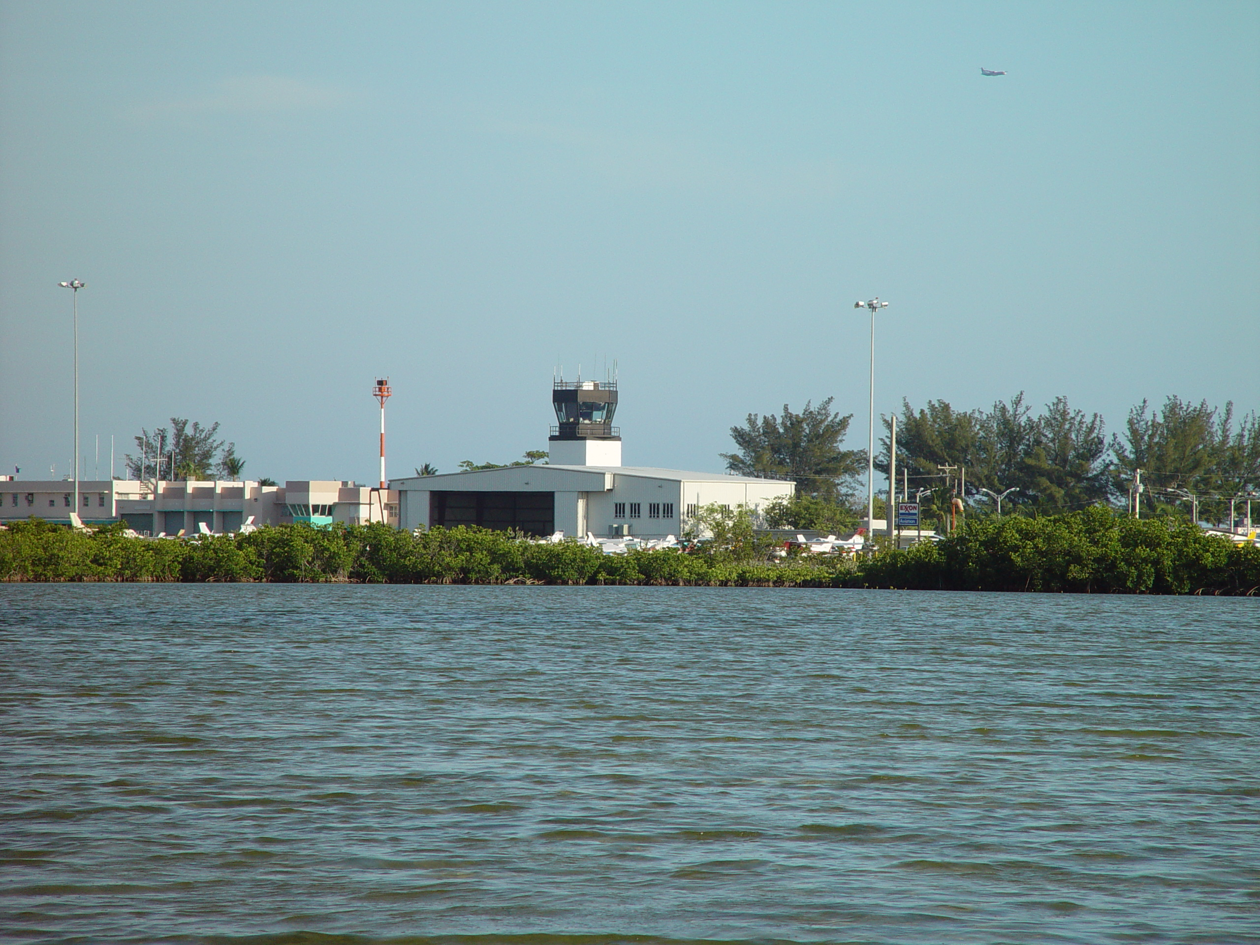 Key West International Airport tower and terminal from across the salt pond to the North of the airport.